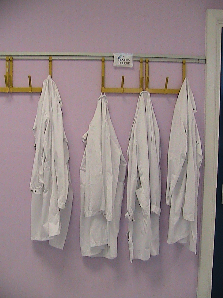 Lab coats from a science class